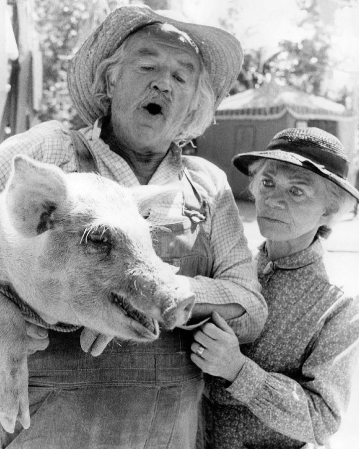 Publicity photo of Will Geer and Ellen Corby as Grandpa and Grandma Walton from the television program The Waltons.